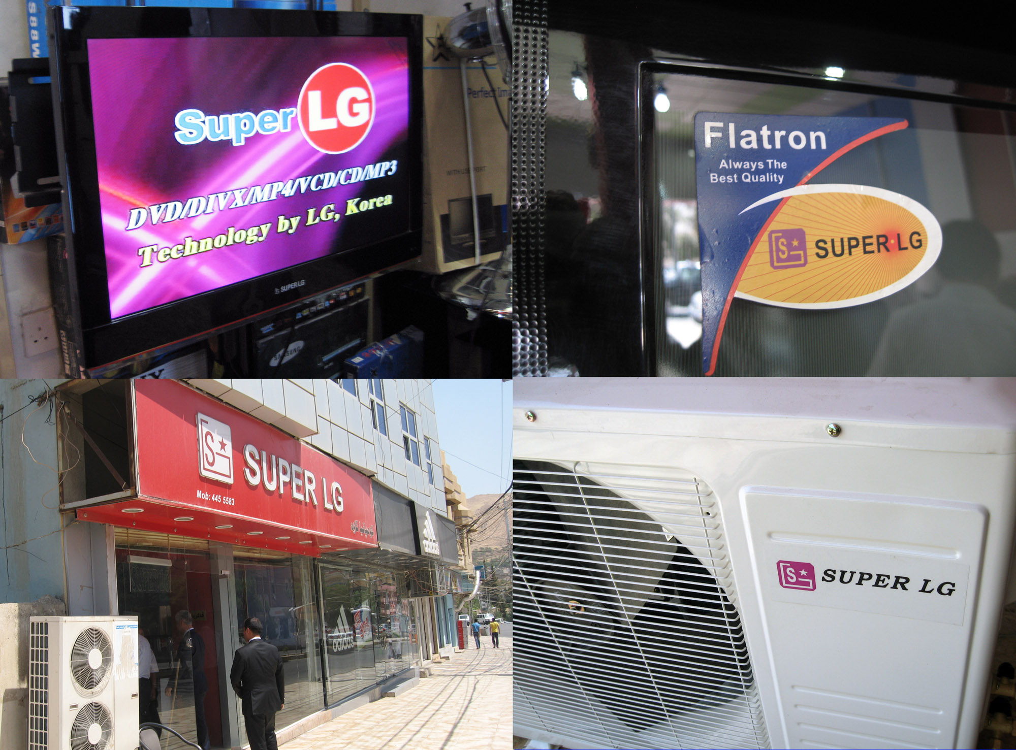 Iraq 'KAWA' Brands, Inc. LG Electronics fake case. Clockwise from top left flat TV, monitor, air conditioner outdoor, in-store signage